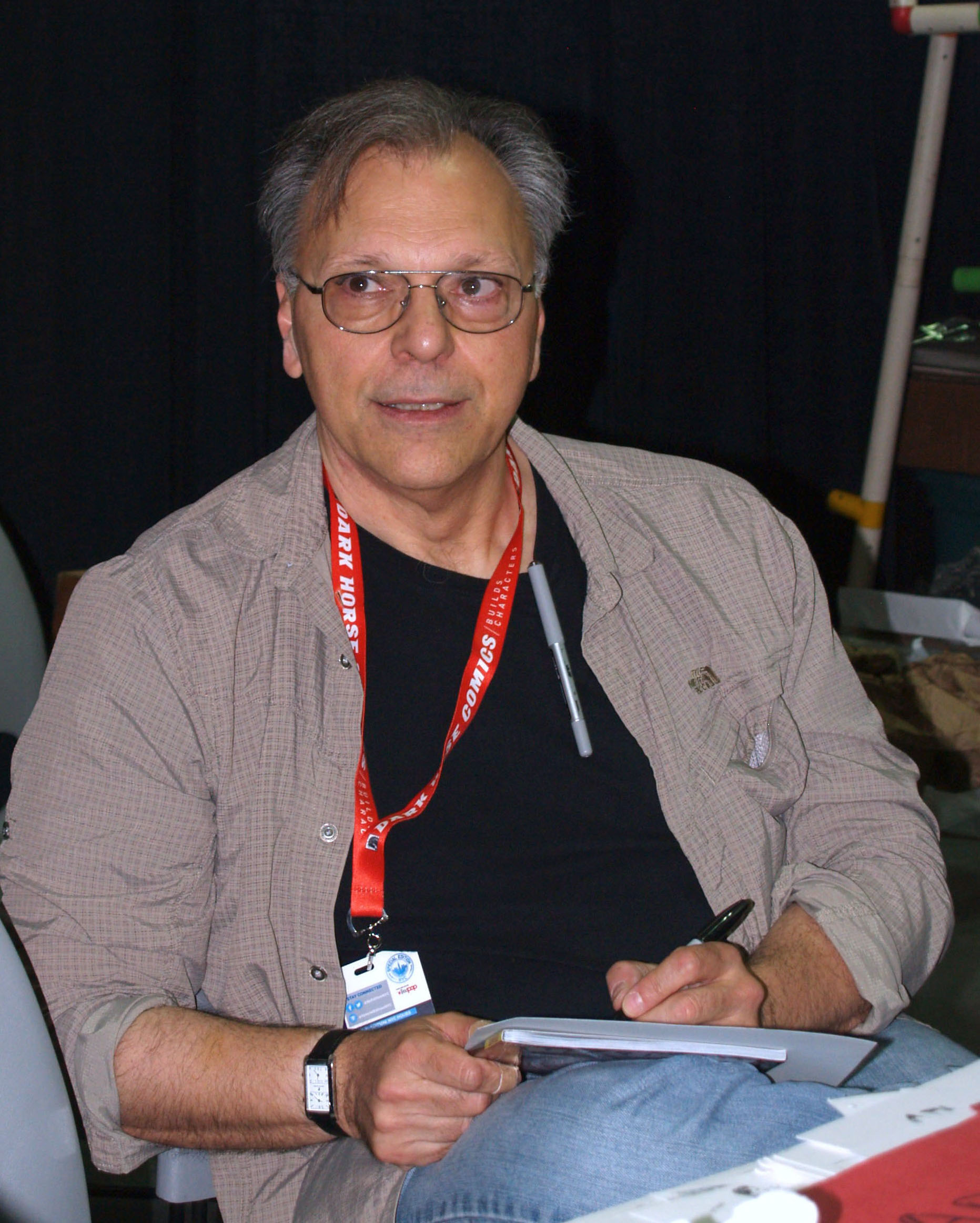 Comics creator Howard Chaykin on Saturday, June 14, 2014, Day 1 of Special Edition NYC, a comic book convention at the Jacob K. Javits Convention Center in Manhattan. This photo was created by Luigi Novi. It is not in the public domain, and use of this file outside of the licensing terms is a copyright violation.